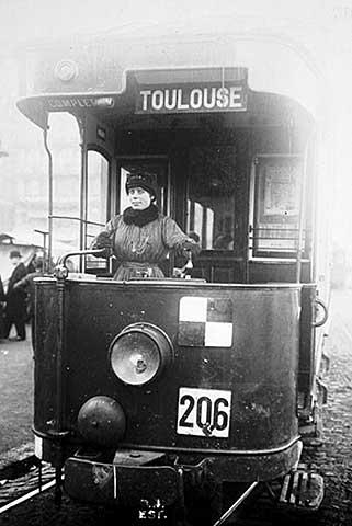 Woman driving a tram in Toulouse during World War I.